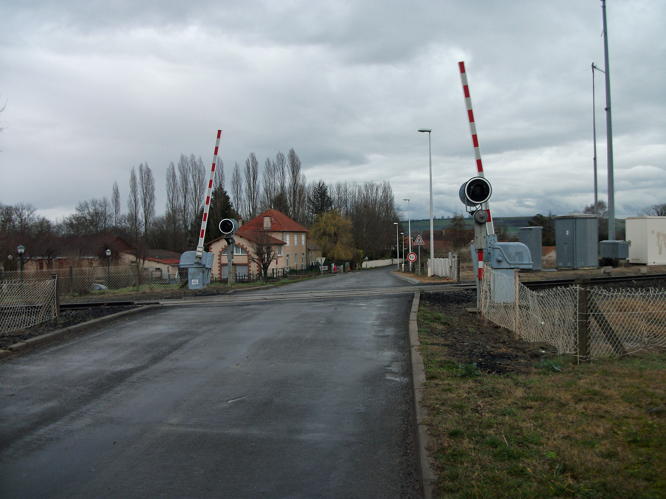 Departmental road 438 and level crossing #12 of the Saint-Germain-des-Fossés–Nîmes railway in Saint-Genès-du-Retz (Puy-de-Dôme) [10089]